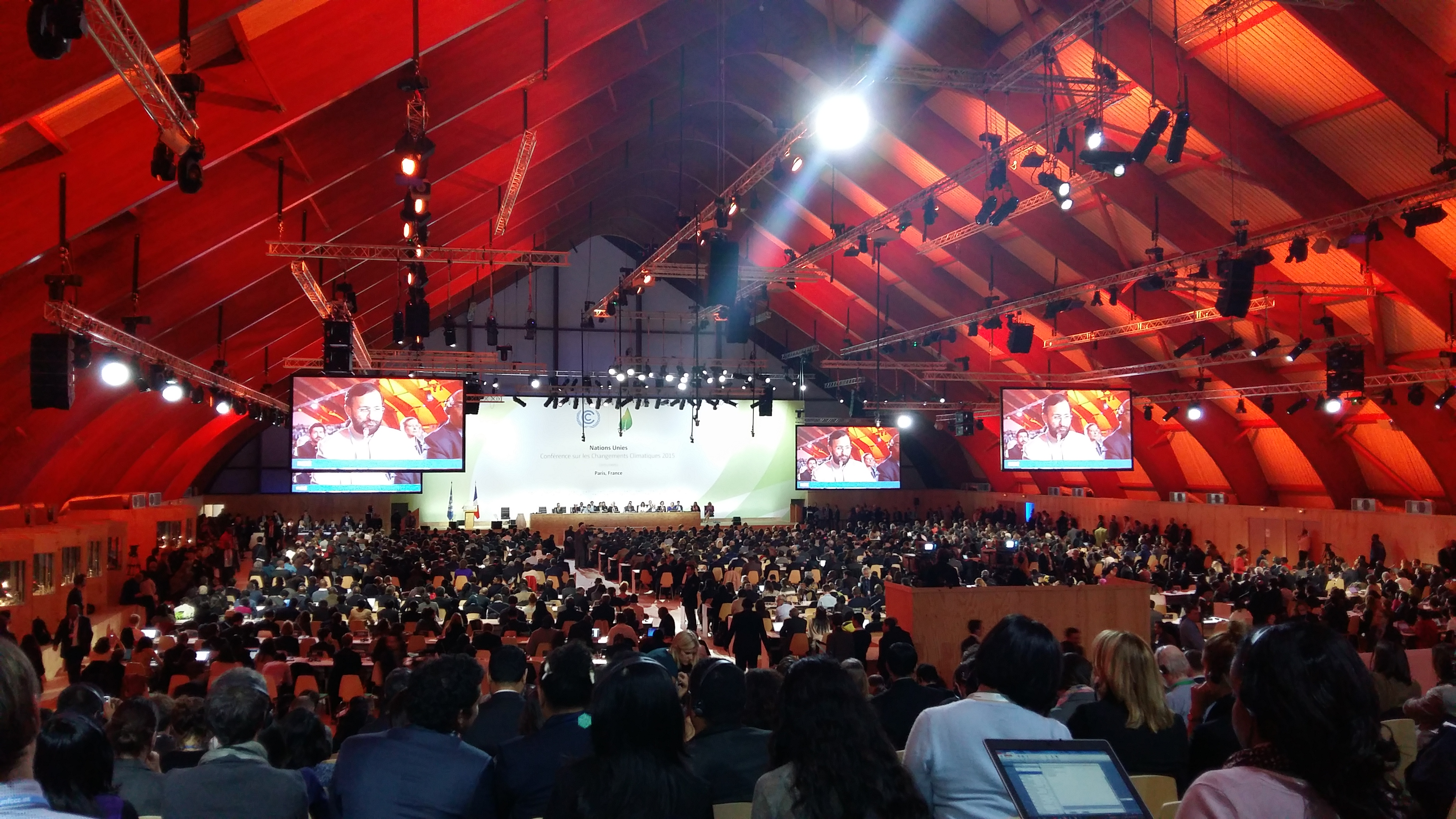 India's representative at the closing ceremony of the cop21 conference in Le Bourget (12/12/2015)